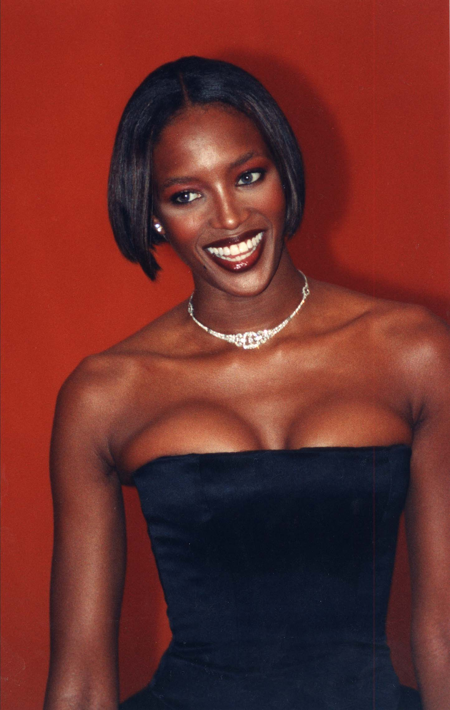 From Clinton Inaugural party 1997 © copyright John Mathew Smith 2001